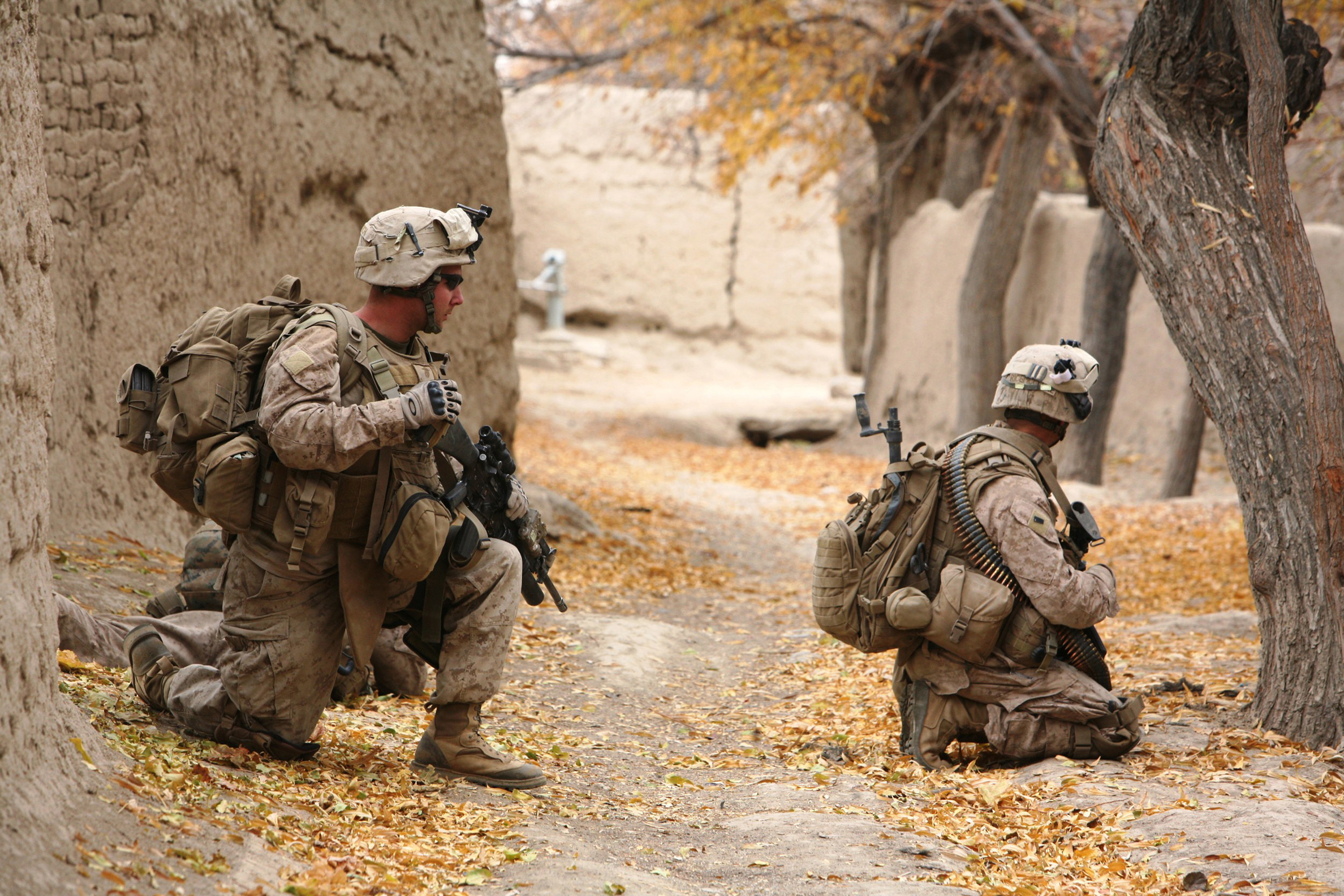 Marines from Lima Company, 3rd Battalion, 4th Marine Regiment, provide security over an alleyway during a security halt while patrolling the region of Now Zad, Afghanistan, known as “The Greens,” Dec. 9. Lima Company cleared the area as part of Operation Cobra’s Anger, to wrest control of the area away from Taliban fighters in the Now Zad region.